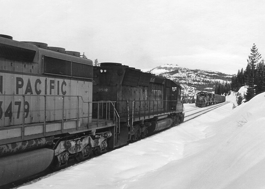 A grimy SD45X trudges up the last few miles to Donner Summit as it meets SDP45s holding back a string of reefers. Castle Peak is visible in the background.